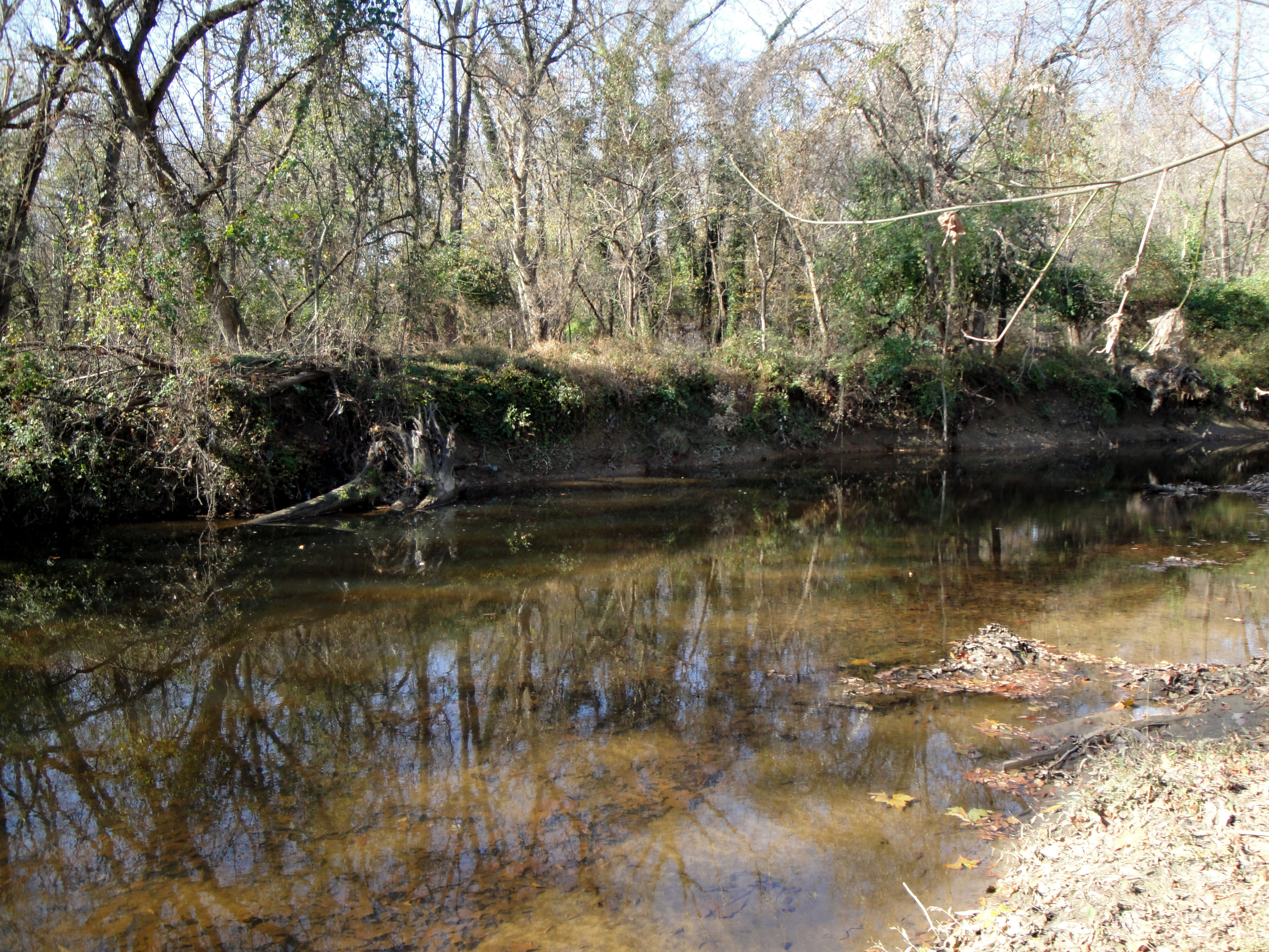 View of Rock Creek in Chevy Chase, Maryland, showing erosion of the streambank due to high volumes of urban runoff.